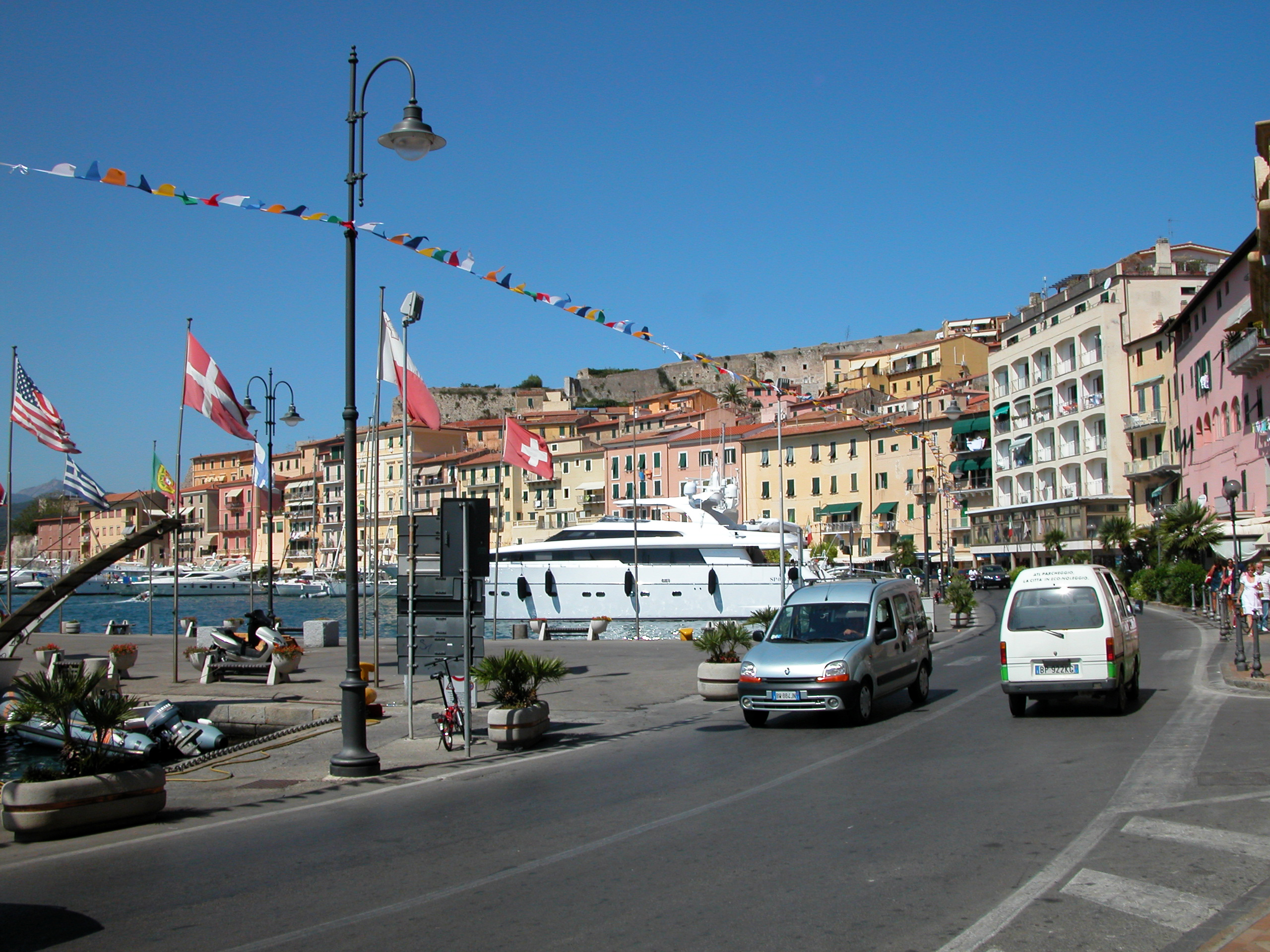 View of Portoferraio marina